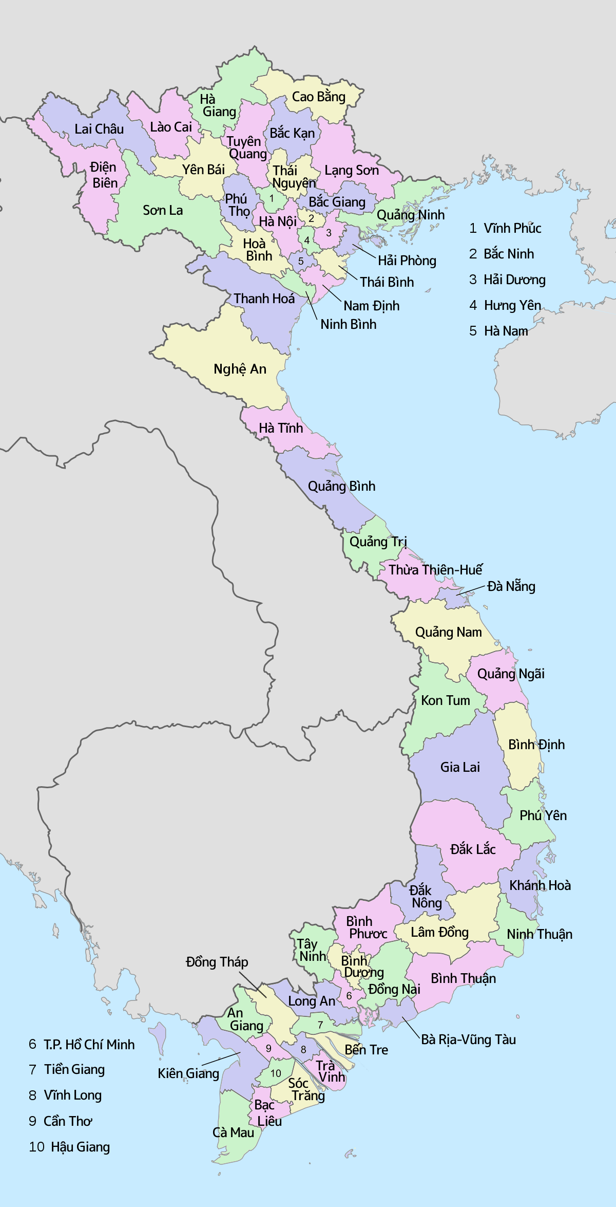 Administrative map of Vietnam from Aug2008. if you find something wrong, please send message to me.